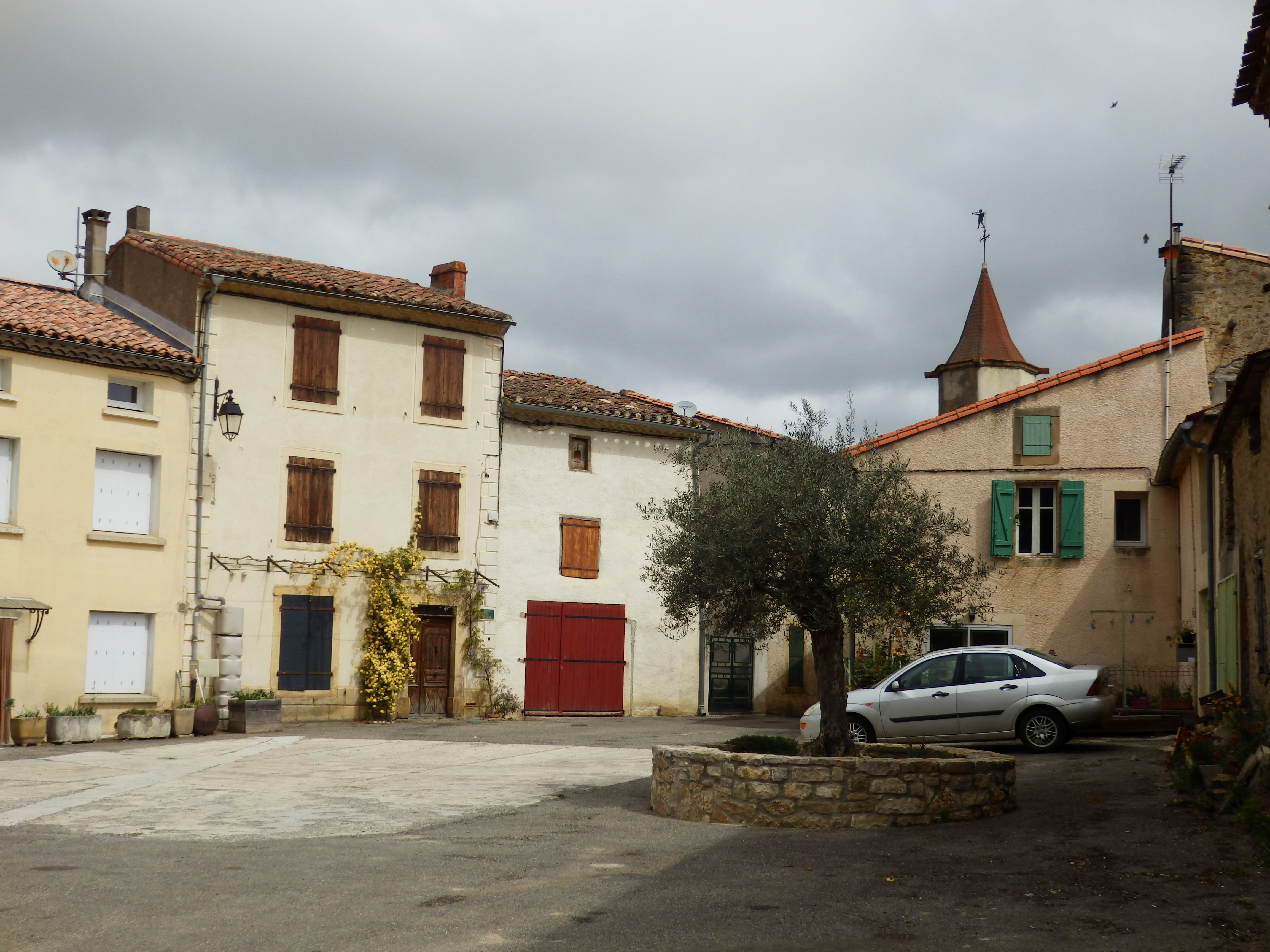 Center of Bouriège, Aude, France